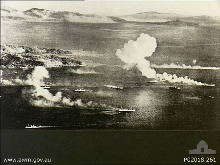 Japanese ships on fire at Truk on February 17 or 18, 1944.